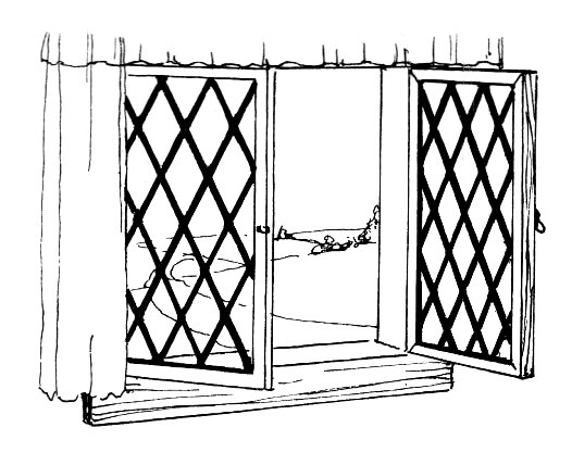 line art drawing of casement.